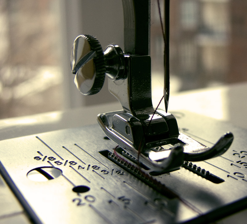 Sewing machine walking foot, showing seam measurements on the foot plate beneath the foot.